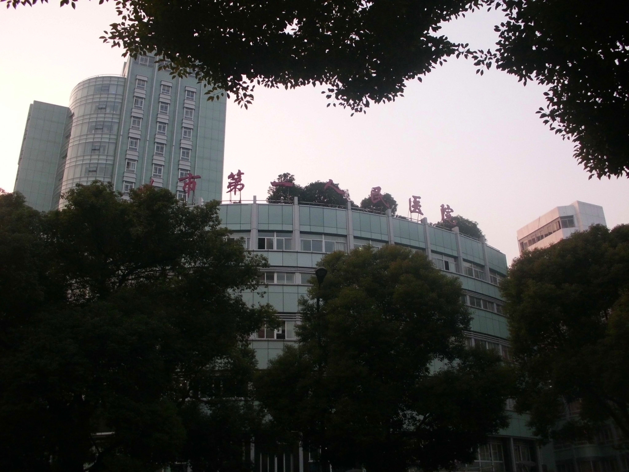 The first people's hospital of hangzhou